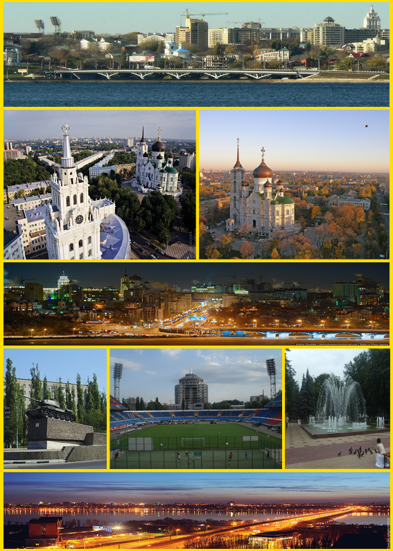 Interesting places in Voronezh